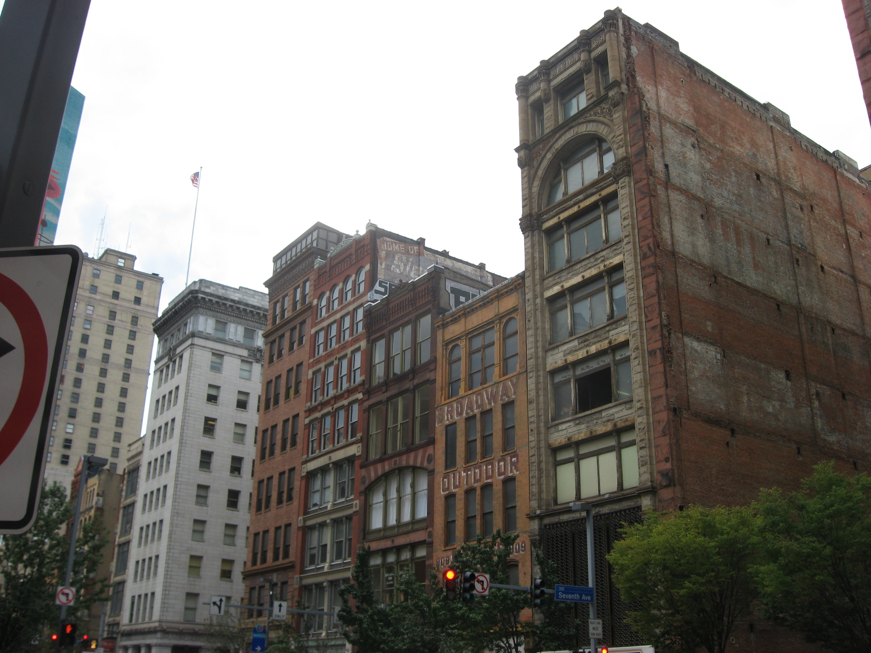 Buildings on the northern side of the 700 block of Liberty Avenue in downtown Pittsburgh, Pennsylvania, United States. The buildings pictured are part of the Penn-Liberty Historic District, which is listed on the National Register of Historic Places.